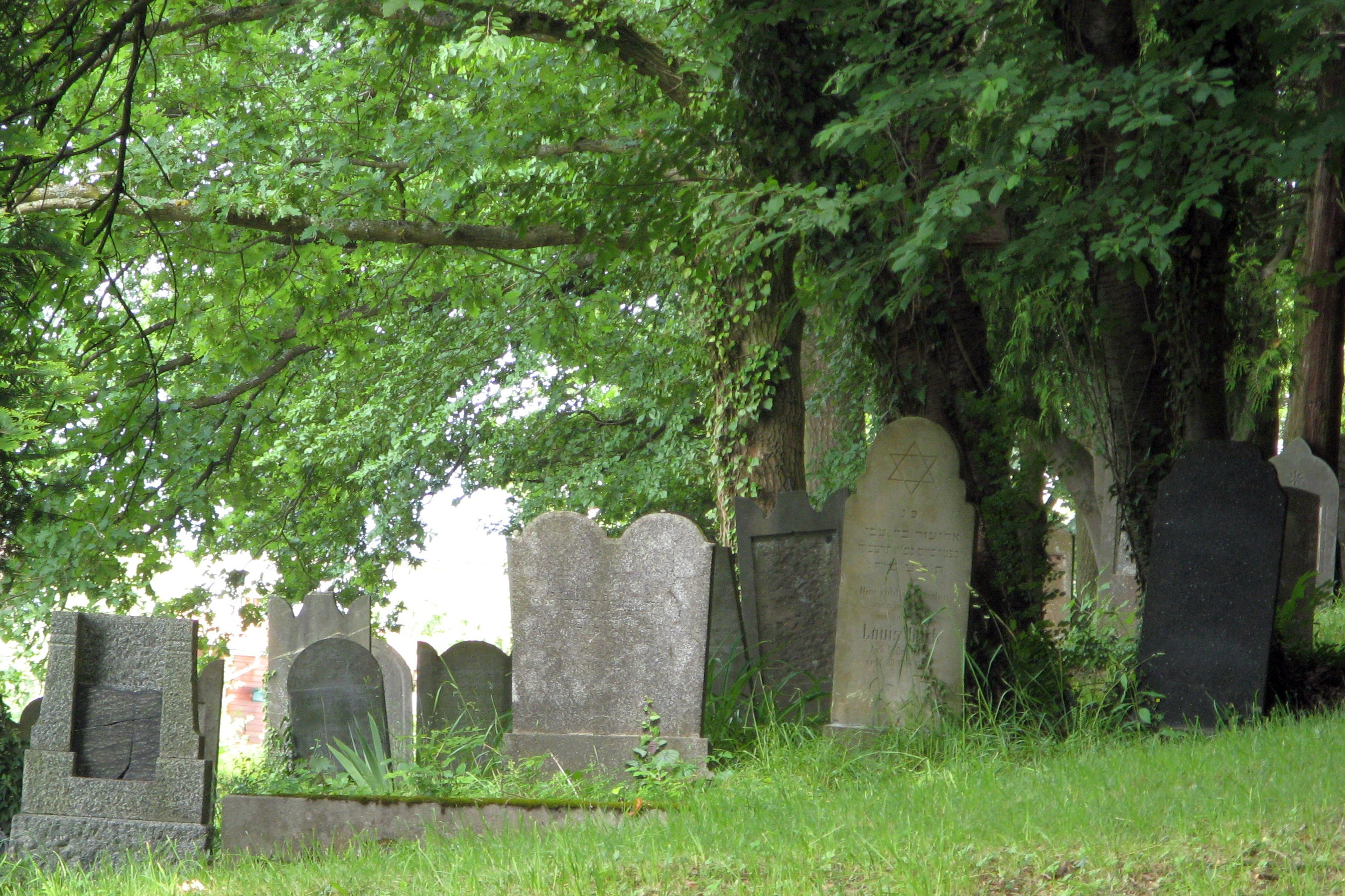 Jewish Cemeteries in Ellar, Hesse, Germany